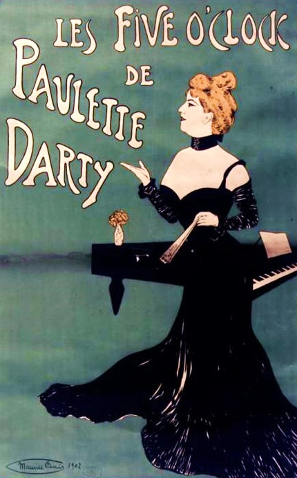 Cropped and color adjusted version of public domain image